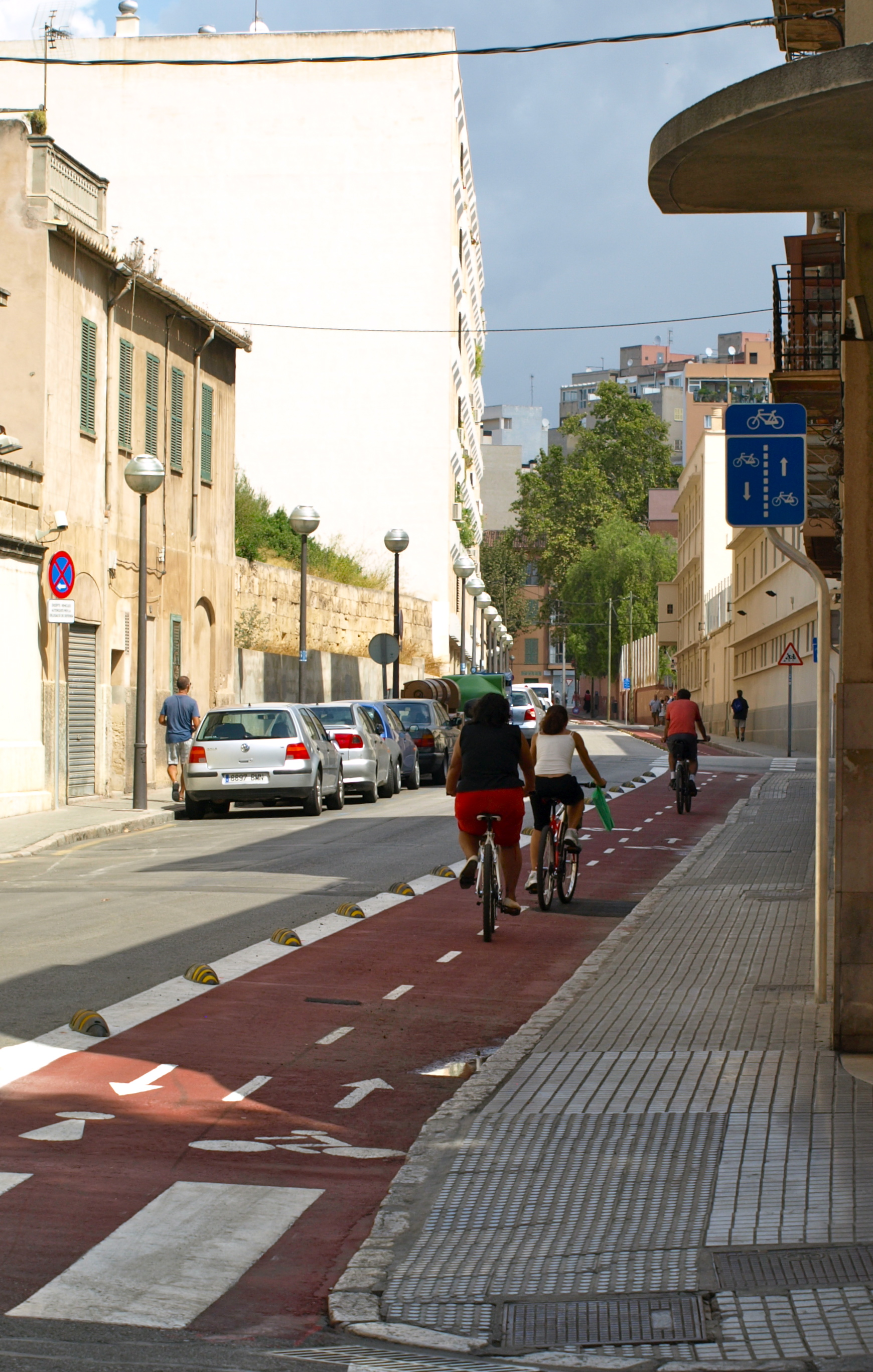 New and expected bike lanes Place Lloc/Place: Carrer Mateu Enric Lladó, Palma